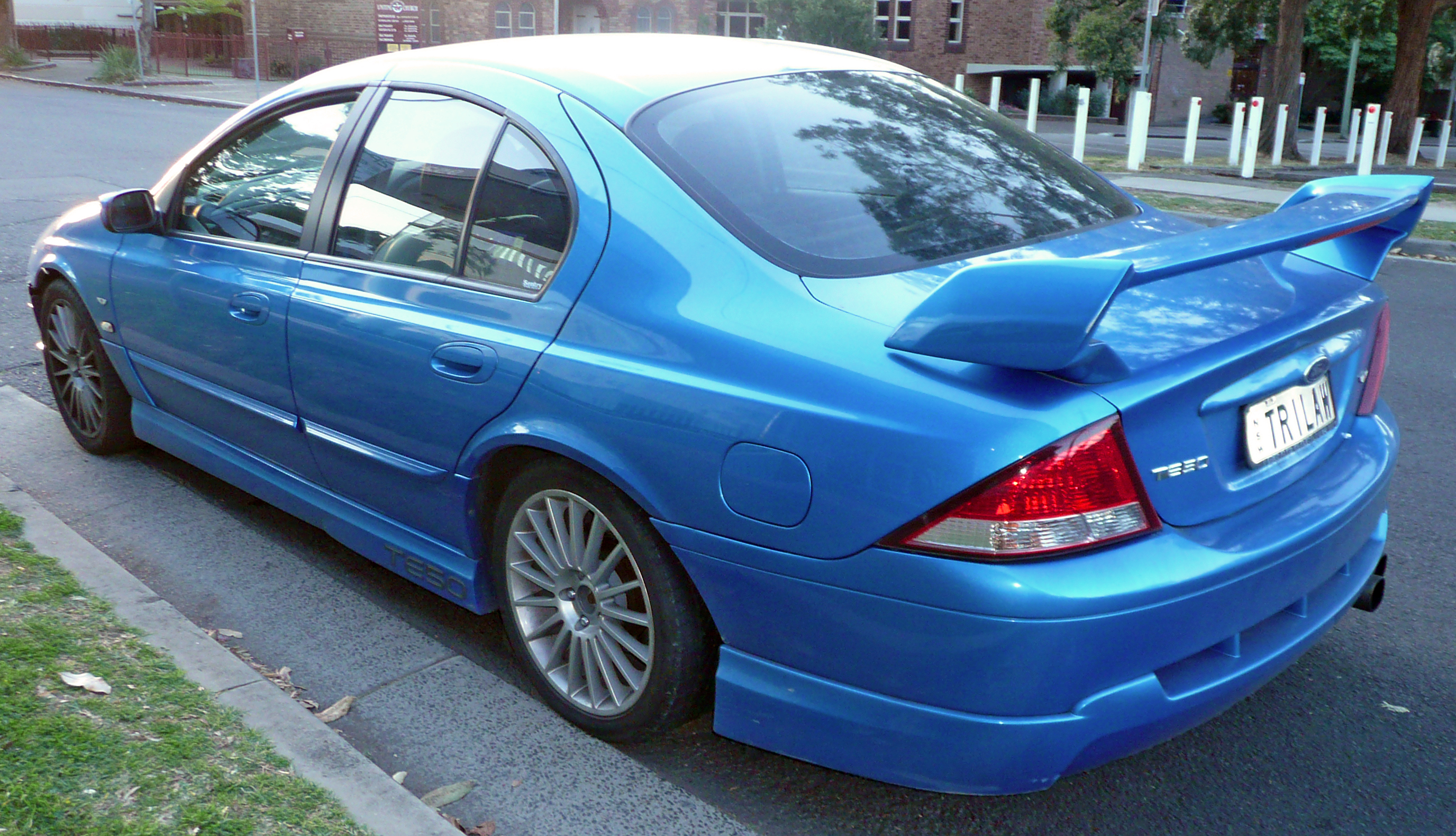 2001–2002 Ford TE50 (T3) sedan. Photographed in Sutherland, New South Wales, Australia.